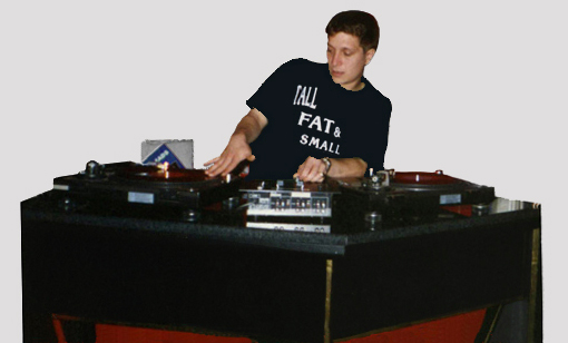 DJ Happy_Fine